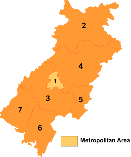 Map of Dazhou in Sichuan province.